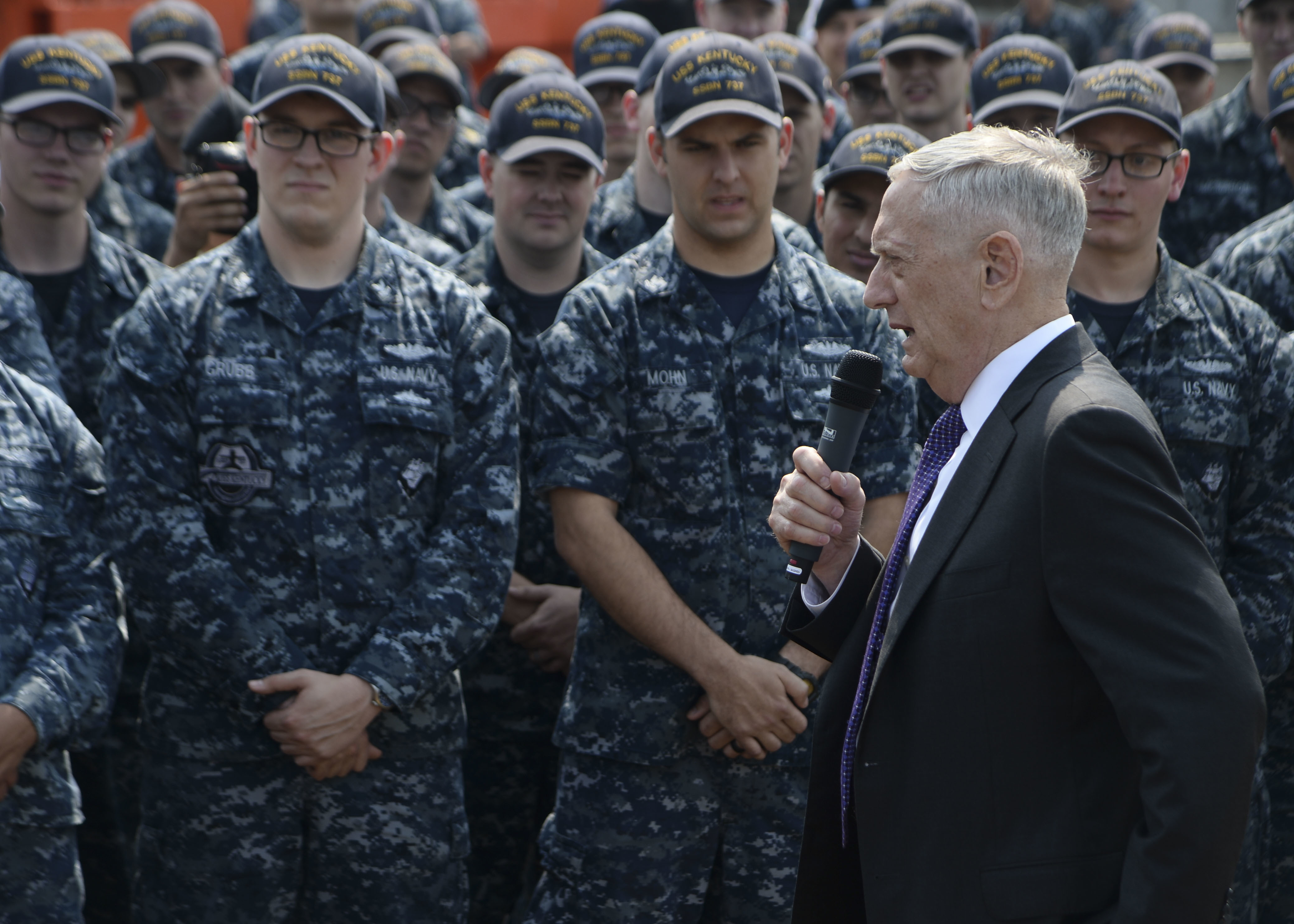 SILVERDALE, Wash. (Aug.9, 2017) Secretary of Defense Jim Mattis speaks with the crew of the Ohio-class ballistic missile submarine USS Kentucky (SSBN-737) during a visit to Naval Base Kitsap-Bangor. (U.S. Navy photo by Mass Communication Specialist 2nd Class Wyatt L. Anthony/Released)170809-N-VH385-061 Join the conversation: navylive.dodlive.mil